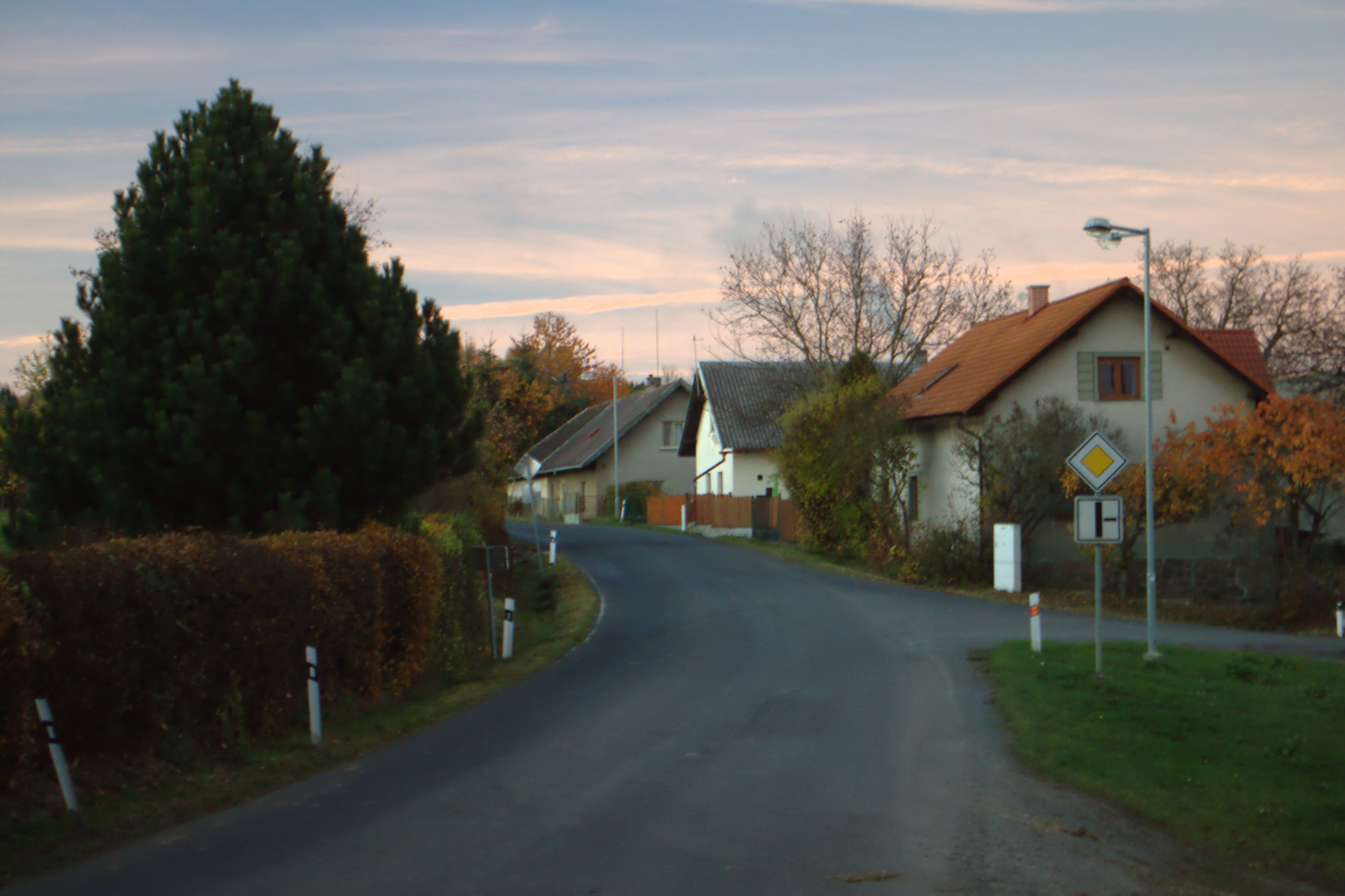 Main road in the village of Radošice, Central Bohemia, CZ